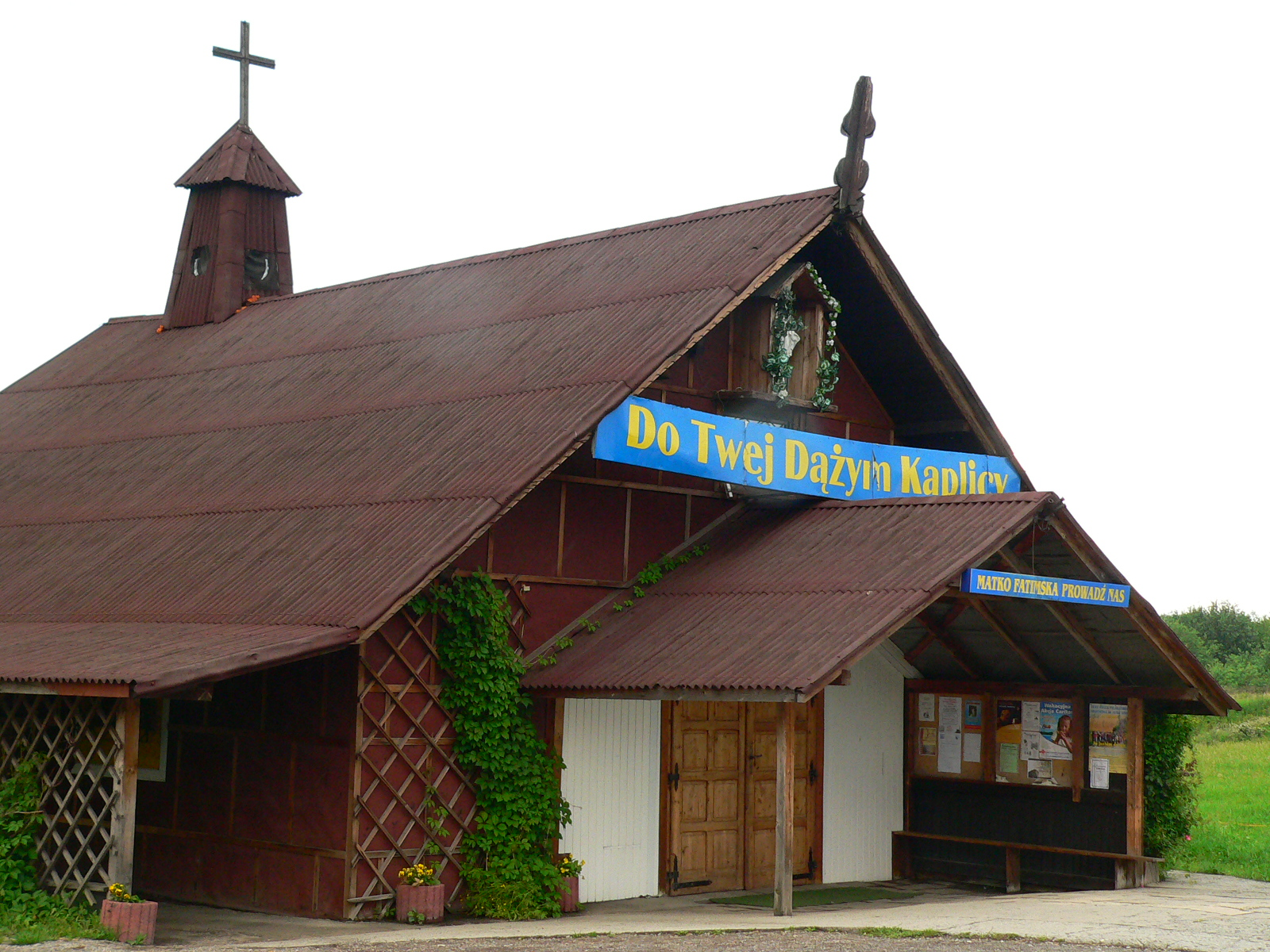 The Holy Virgin's from Fatima chapel in Golkowice (Poland)